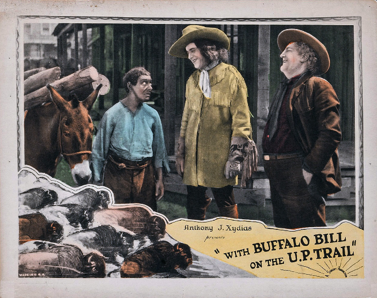 Lobby card for the American western film With Buffalo Bill on the U.P. Trail (1926) with Eddie Harris (in blackface), Roy Stewart, and Dick La Reno.